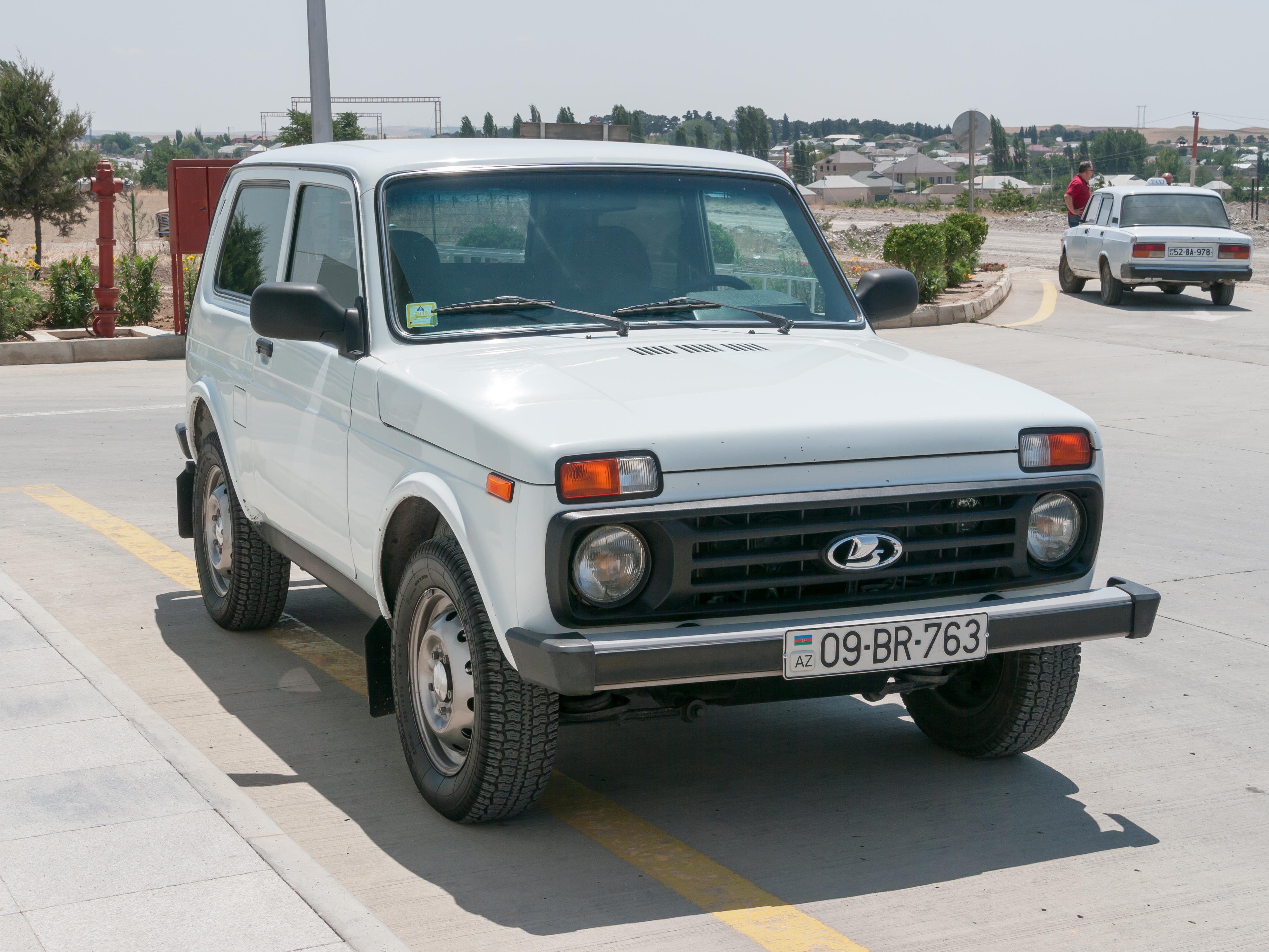 Lada Niva in Azerbaijan